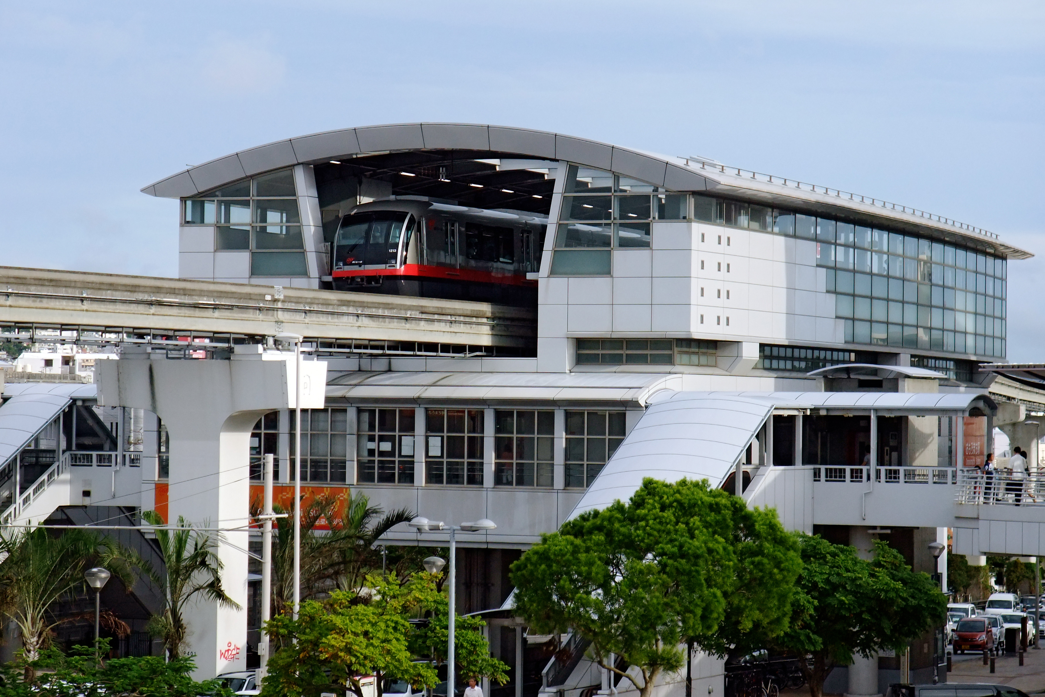 Omoromachi Station, in Naha, Okinawa prefecture, Japan